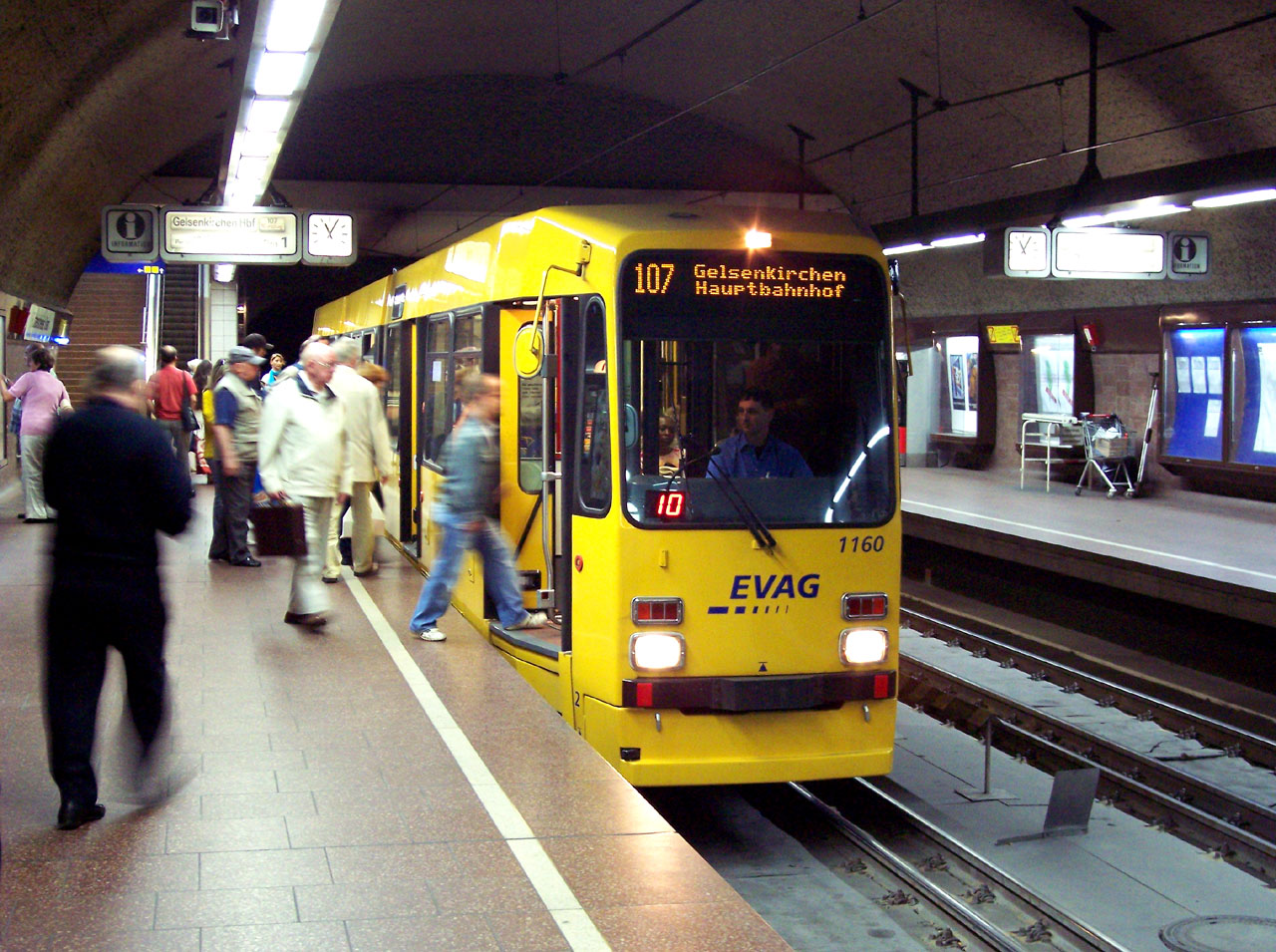 An Essener Verkehrs-AG of Essen, Germany tram at Rüttenscheider Stern station on the Südstrecke line used jointly by metre gauge trams and standard gauge light rail. The tram, DUEWAG-built M8C number 1160, has been fitted with folding steps for loading at high platforms.